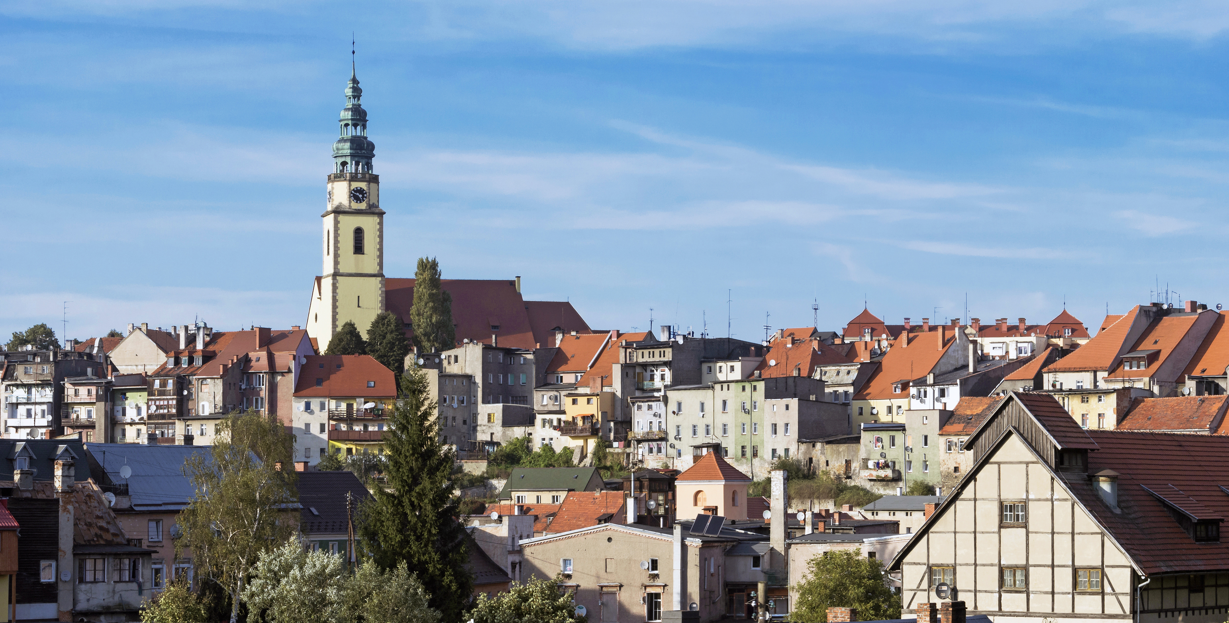 Historic centre of Bystrzyca Kłodzka